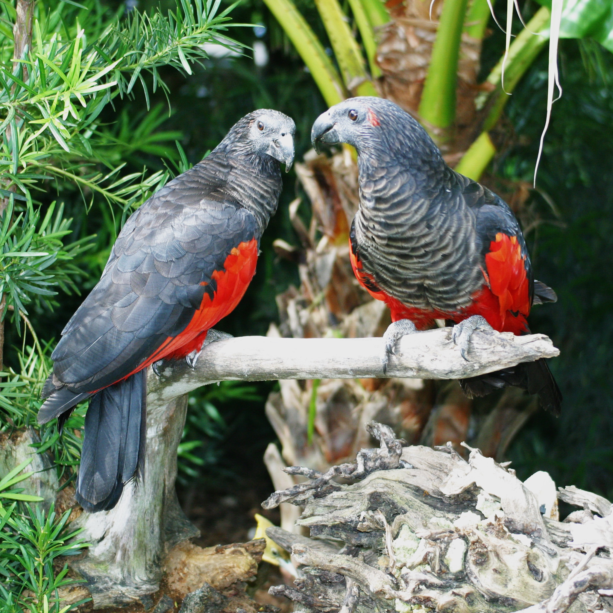 Two Pesquet's Parrots at Miami Zoo, USA.